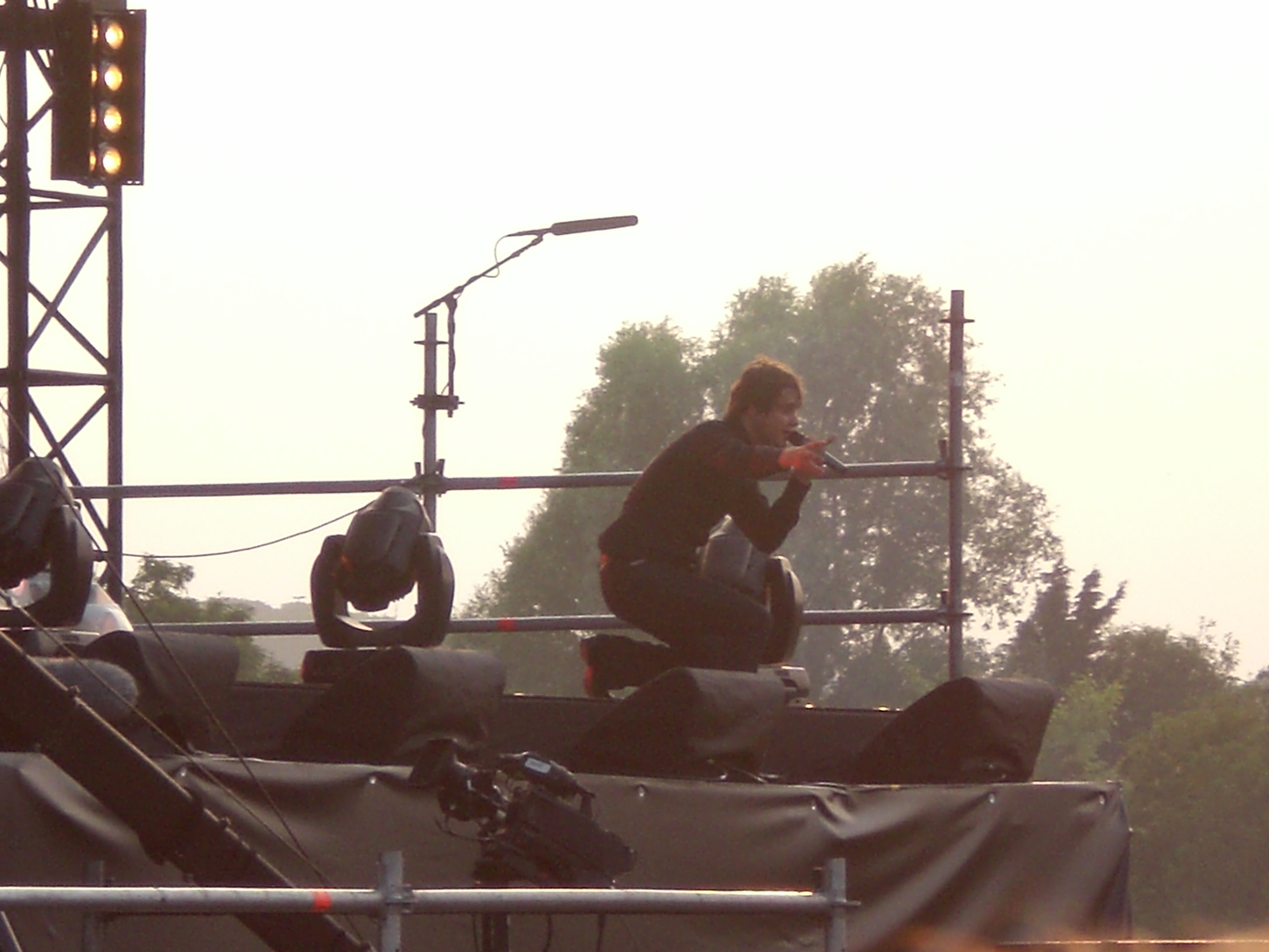 Tom Chaplin, lead singer of Keane performing at the Isle of Wight Festival 2007.